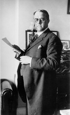 Frank B. Willis Frank Barlett Willis and family moved to Delaware, Ohio following his term as Governor of Ohio. The family lived at 123 North Franklin Street in Delaware Ohio. When he was elected to the Senate, the family built a new home further north on North Franklin Street where he lived until his death.